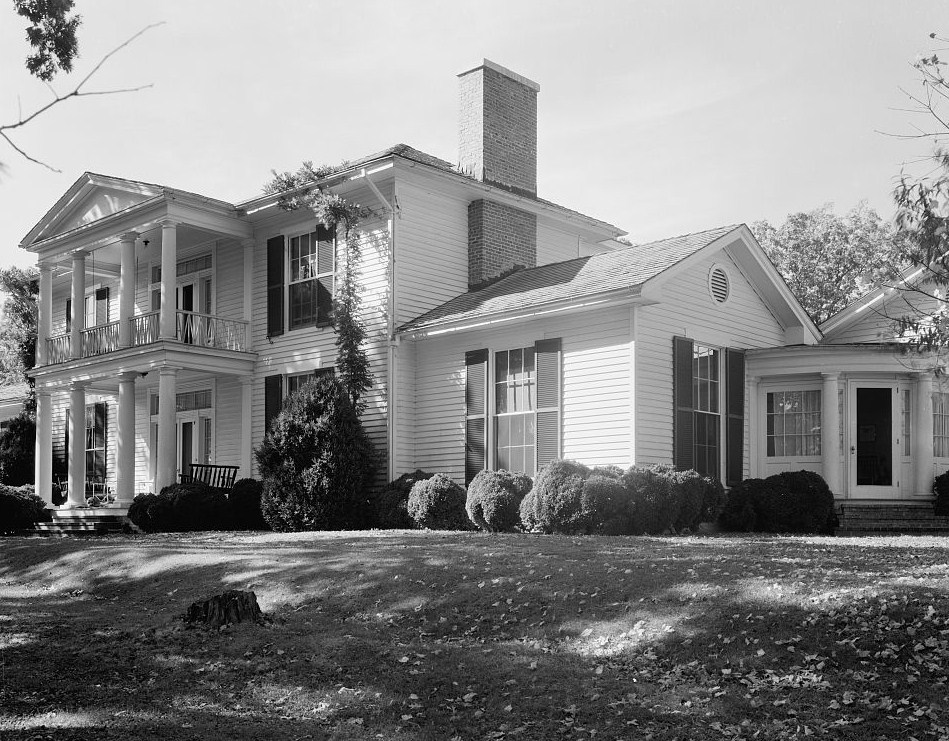 Poteat House, Yanceyville (Caswell County, North Carolina) cropped This image is available from the United States Library of Congress's Prints and Photographs division under the digital ID csas.02240.This tag does not indicate the copyright status of the attached work. A normal copyright tag is still required. See Commons:Licensing for more information. Rights Advisory: No known restrictions on publication. This work is in the public domain in the United States because it is a work prepared by an officer or employee of the United States Government as part of that person’s official duties under the terms of Title 17, Chapter 1, Section 105 of the US Code. Note: This only applies to original works of the Federal Government and not to the work of any individual U.S. state, territory, commonwealth, county, municipality, or any other subdivision. This template also does not apply to postage stamp designs published by the United States Postal Service since 1978. (See § 313.6(C)(1) of Compendium of U.S. Copyright Office Practices). It also does not apply to certain US coins; see The US Mint Terms of Use. This file has been identified as being free of known restrictions under copyright law, including all related and neighboring rights. Object location36° 25′ 11″ N, 79° 18′ 37″ W